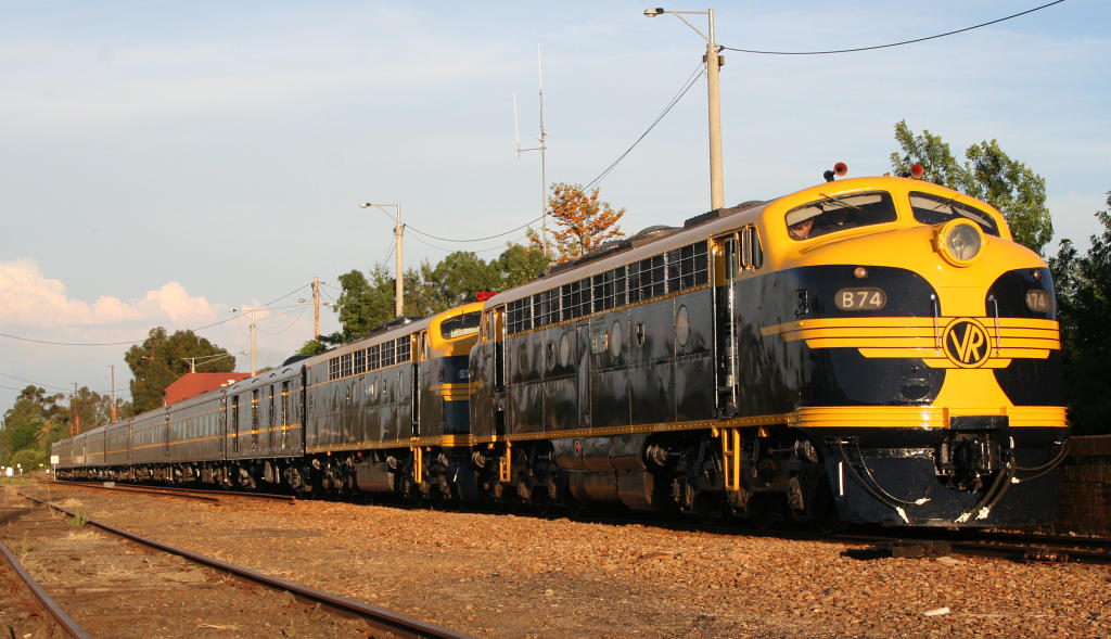 The 'Spirit of Progress' 70th anniversary train, at Benalla, Victoria, Australia.